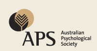 This is the logo of the Australian Psychological Society